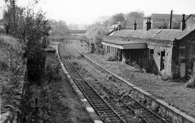 Bothwell (NBR) Station (remains). View SSW, towards Hamilton; ex-NBR Glasgow Queen St. (Low Level) etc. via Shettleston - Hamilton line. The line on to Hamilton had already been closed on 15/9/52 and this station, which was just across the road from the Caledonian terminus, had been closed on 4/7/55 but was open for goods until 6/6/61 when the line from Shettleston was closed for good.